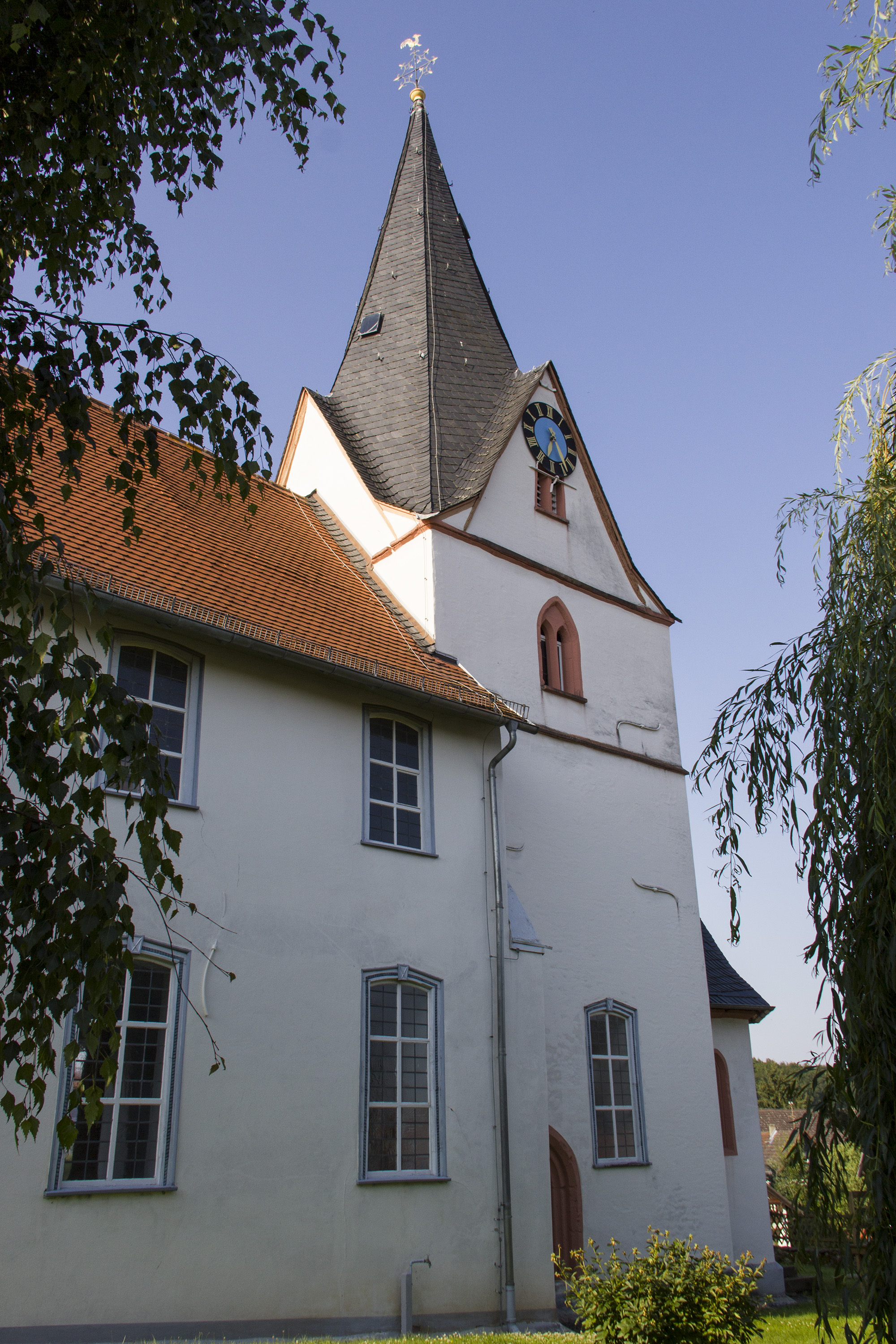 Evangelical Church Villingen, July 2012.